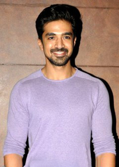 Saqib Saleem at the screening of Shubh Mangal Savdhan.